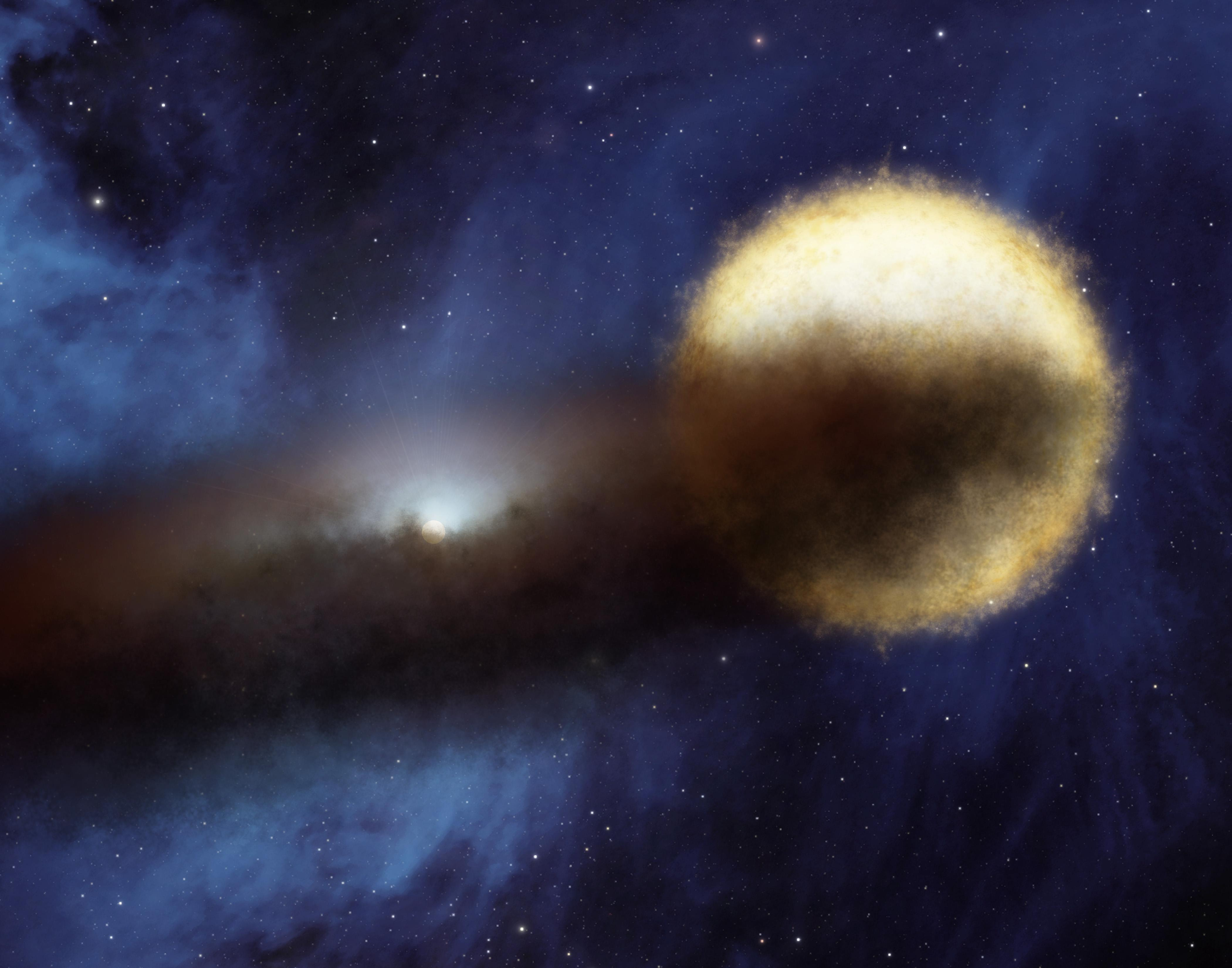 Using NASA's Spitzer Space Telescope, astronomers have found a likely solution to a centuries-old riddle of the night sky. Every 27 years, a bright star called Epsilon Aurigae fades over period of two years, then brightens. Although amateur and professional astronomers have observed the system extensively, the nature of both the bright star and the companion object that periodically eclipses it have remained unclear. The companion is known to be surrounded by a dusty disk, as illustrated in this artist's concept. Data from Spitzer finally seems to have solved the riddle. Spitzer's infra-red vision revealed the size of the dusty disk that swirls around the companion object. When astronomers plugged this data into a model of the system, they were able to rule out the theory that the main bright star is a super-giant. Instead, it is a bright star with a lot less mass. The new model also holds that the companion object is a so-called "B star" circled by a dusty disk.